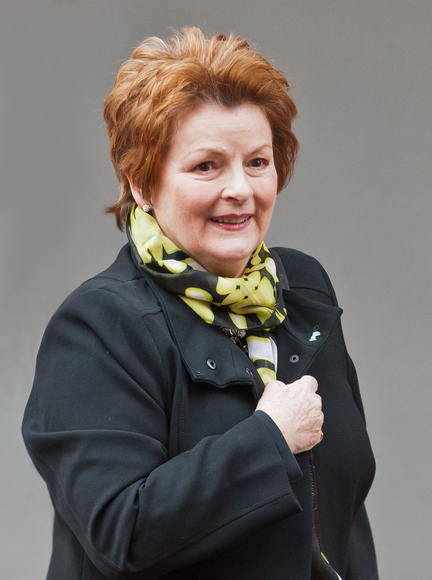 British actress Brenda Blethyn leaving the press conference for "Two Men in Town (La voie de l'ennemi)"